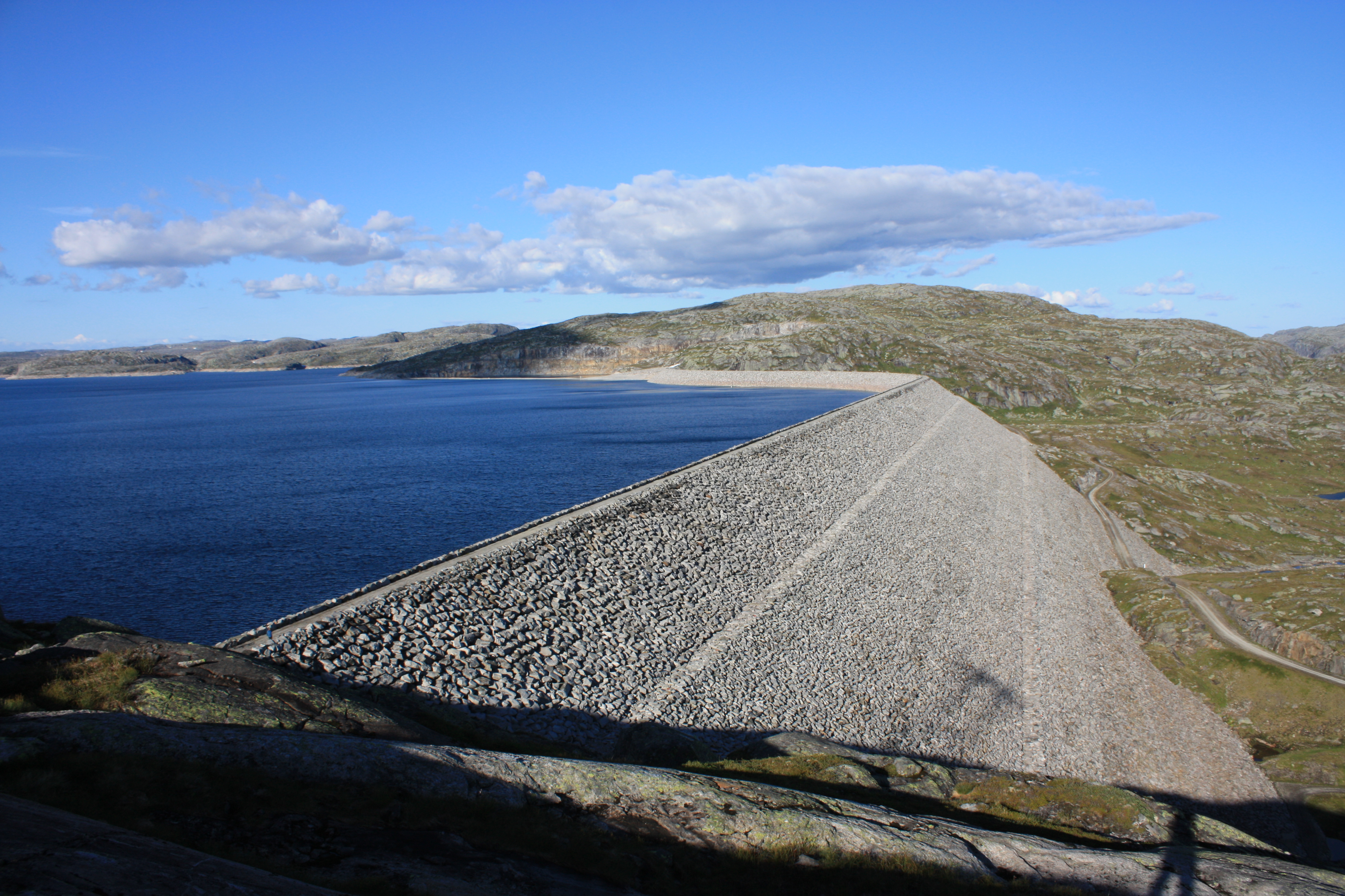 Storvassdammen and Blåsjø. Part of Ulla-Førre